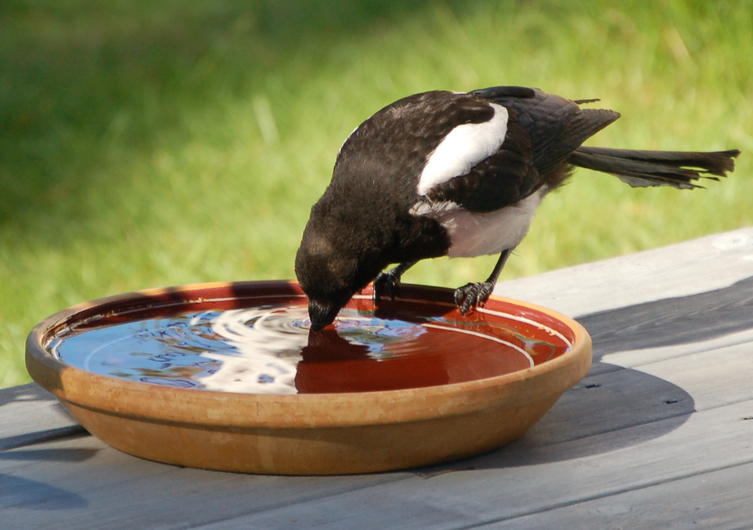 Drinking Common Magpie (Pica pica) in Norway